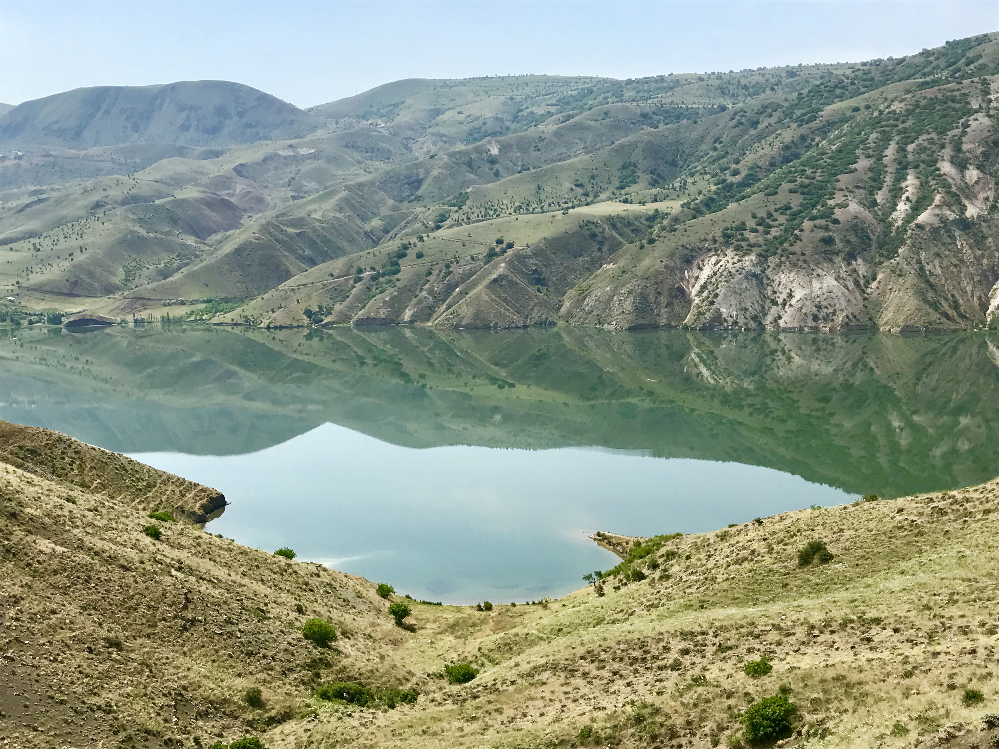 A partial view of the southern part of Kılıçkaya Dam Lake in Giresun, Turkey.